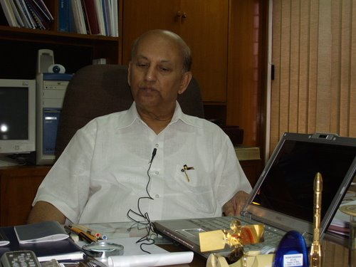 Professor U R Rao. Photo taken by me.